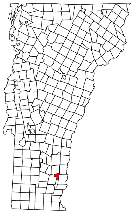 Map of Vermont towns with Athens highlighted